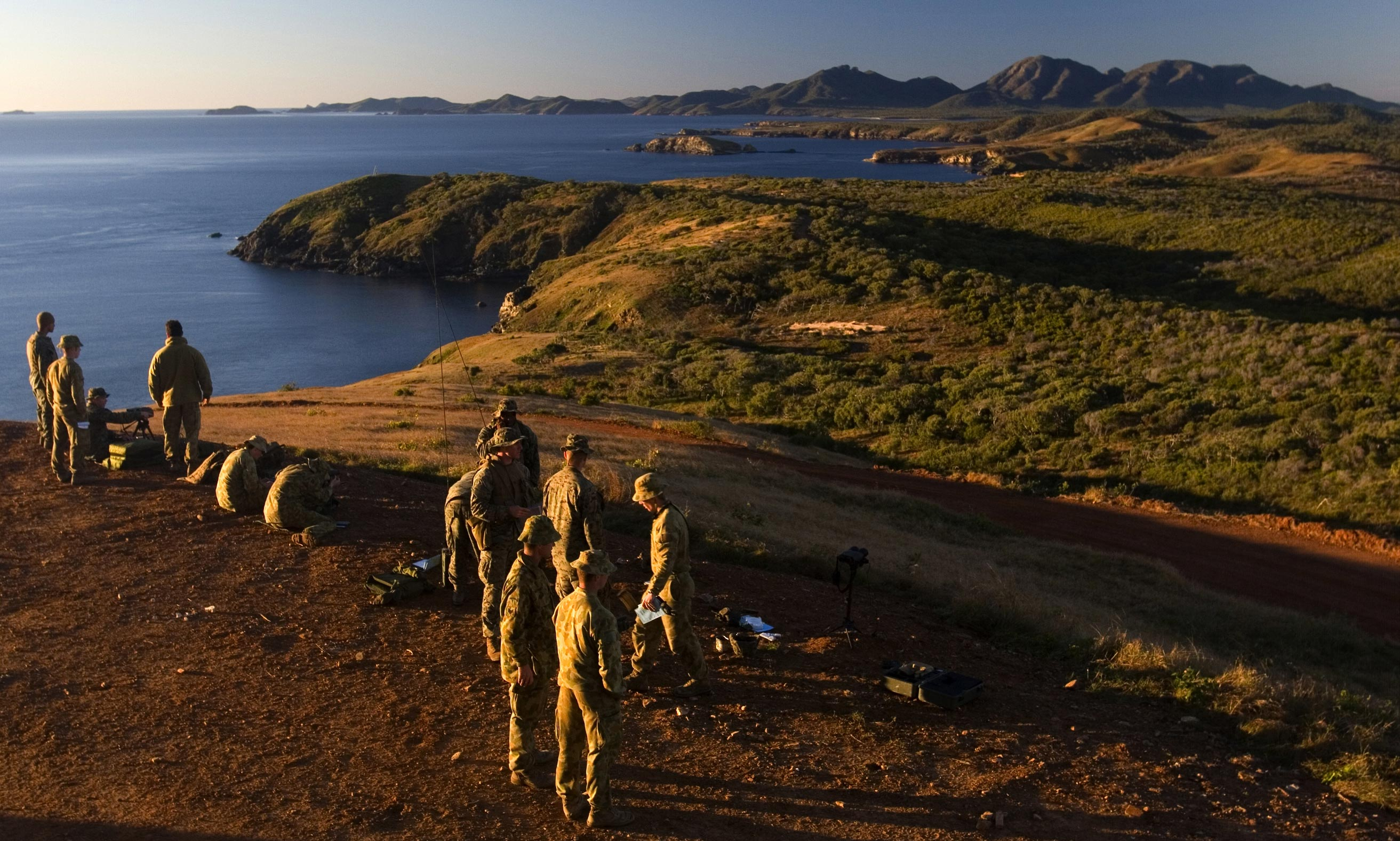 TOWNSHEND ISLAND, SHOALWATER BAY TRAINING AREA, QUEENSLAND, Australia � Australian and U.S. fire-support team members work together during a fire-support mission here, July 1. The fire mission was part of a four-day fire-support team training exercise involving personnel of the 3rd Marine Expeditionary Brigade�s 31st Marine Expeditionary Unit and their Australian counterparts during Exercise Talisman Saber 2007. Talisman Saber is conducted to train an U.S. and Australian joint task force and operations staff in crisis action planning for execution of contingency operations. The exercise involves more than 32,000 personnel from both nations that will focus on improving interoperability and enhancing regional stability.